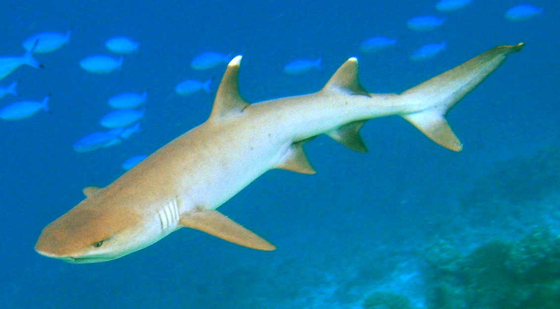 Whitetip reef shark (Triaenodon obesus). Photographed by Jan Derk in March 2006 in Fihalhohi, Maldives.